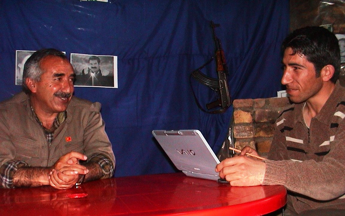 Polat Can with Murat Karayılan